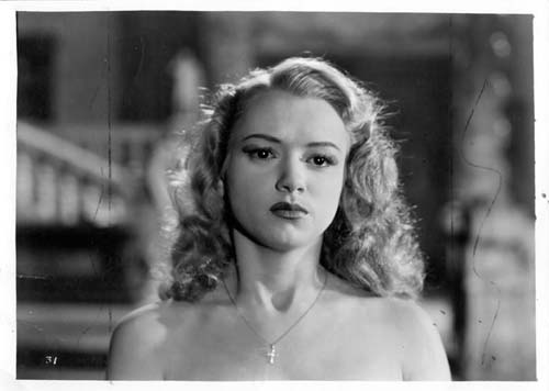 Olga Zubarry, from the 1955 Argentine film Marianela.